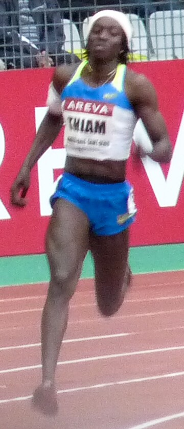 400 m féminin lors du Meeting Areva 2009. Amy Mbacke Thiam (SEN).